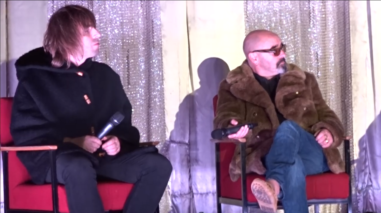 At The Premiere Of Oasis Documentary Supersonic In Berlin 27/10/2016